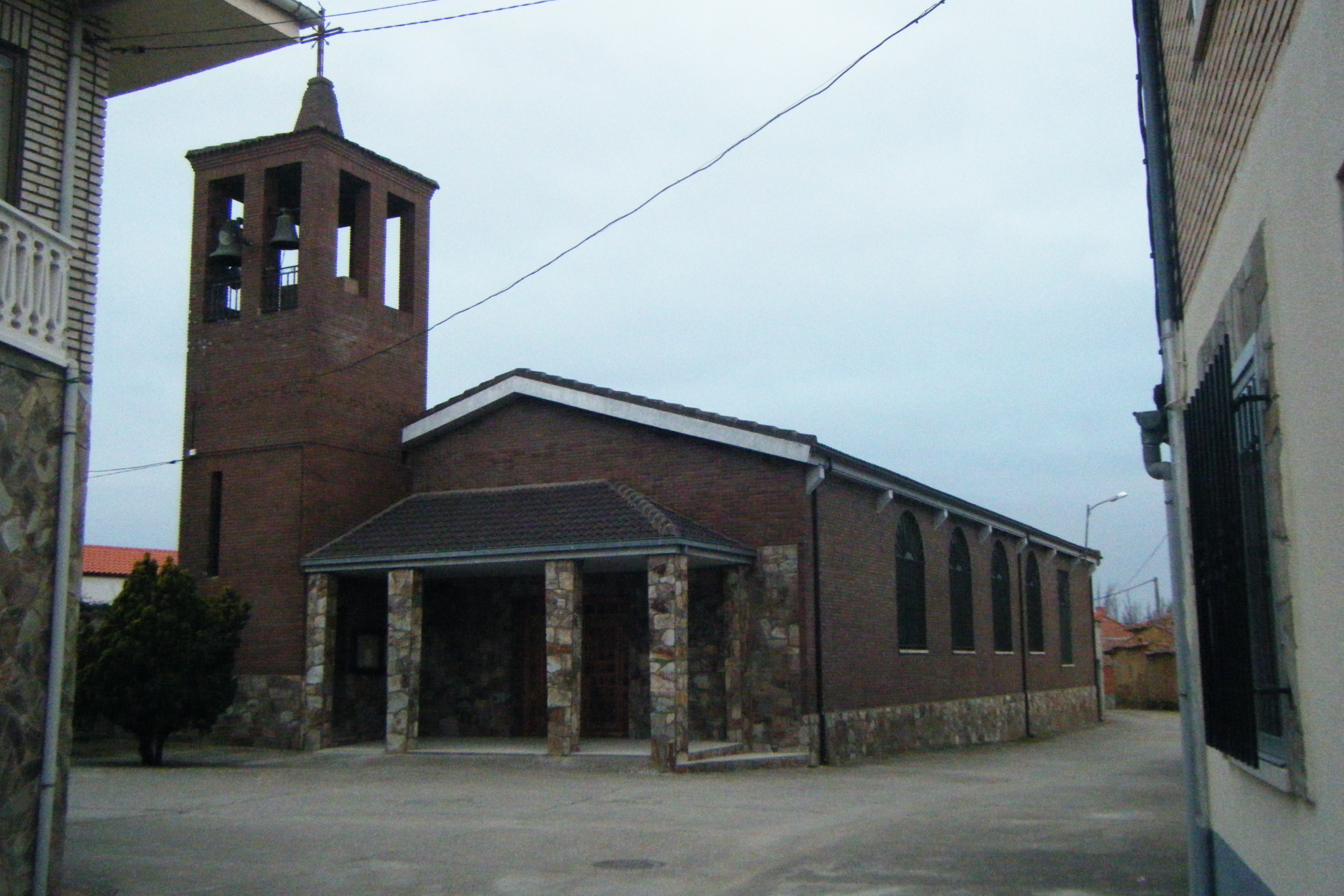 Iglesia de Calzadilla de Tera